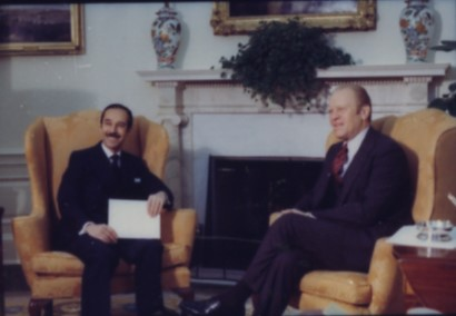 Presentation of Diplomatic Credentials by the Ambassador-Designate from the Argentine Republic.